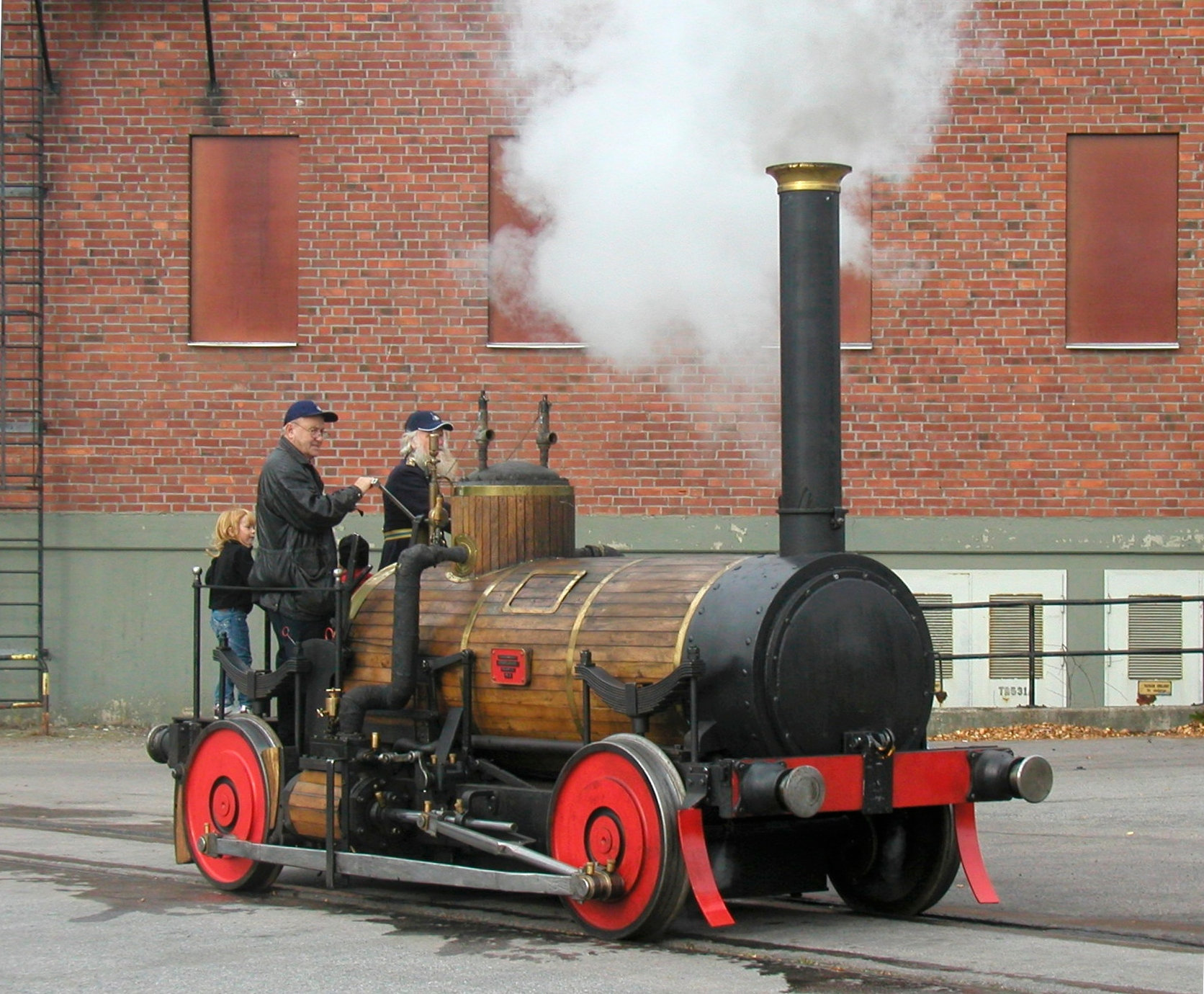 Train "Förstlingen II", which is a exact copy of "Förstlingen" - the first engine made in Sweden (1853). This photo taken October 2009 at the Munktell museum in Eskilstuna Sweden, the same place that the original Förstlingen was manufactured . For more info se